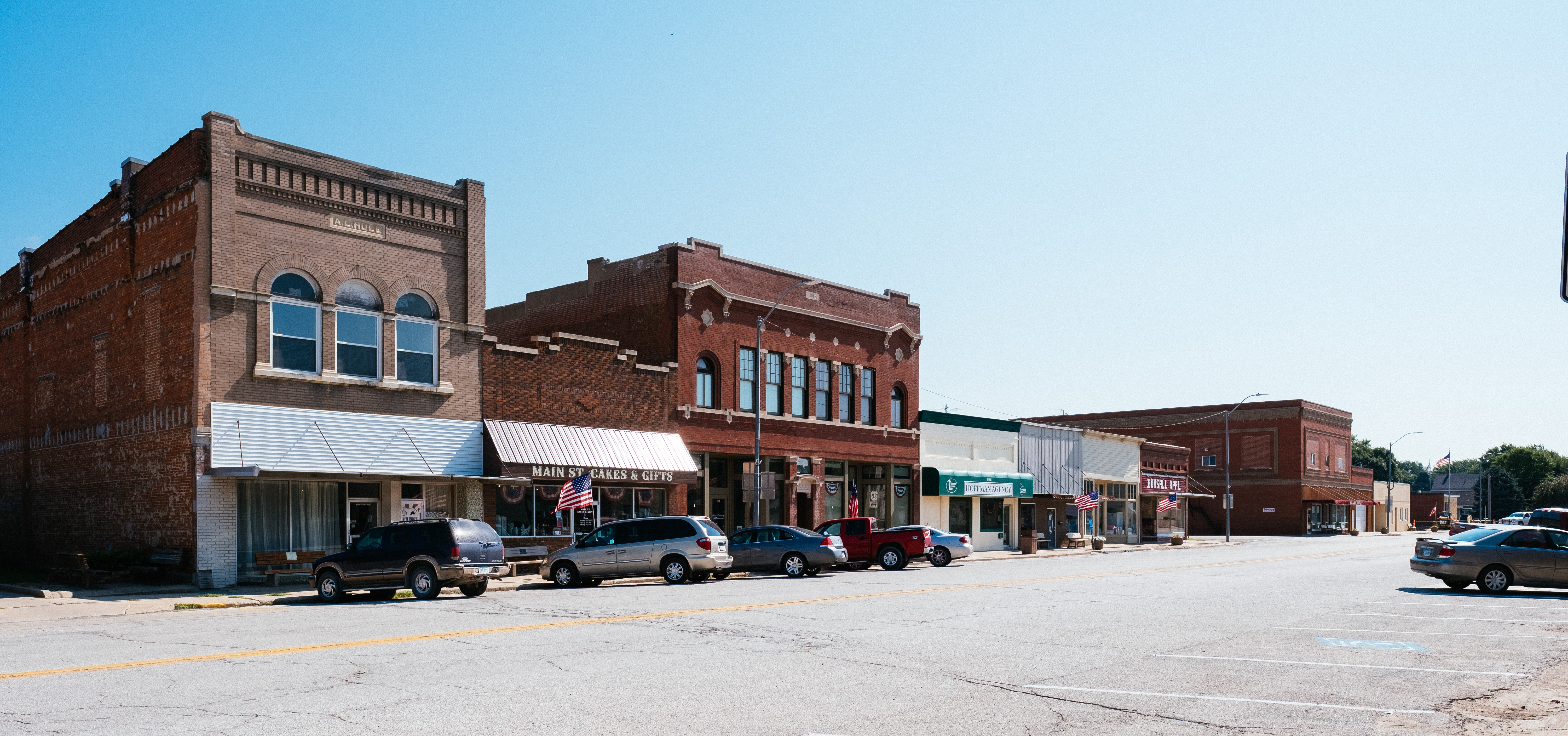 Downtown